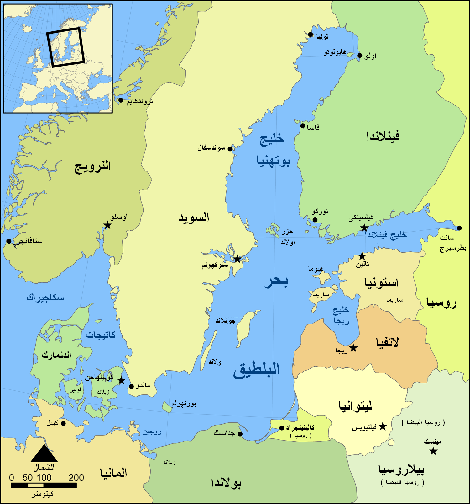 This is a map of the Baltic Sea, Arabic/Masry version